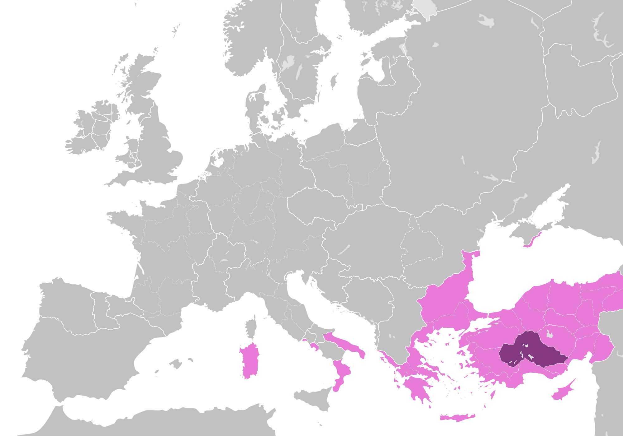 Map of the Anatolic Theme within the Byzantine Empire in 1000 AD. Based on